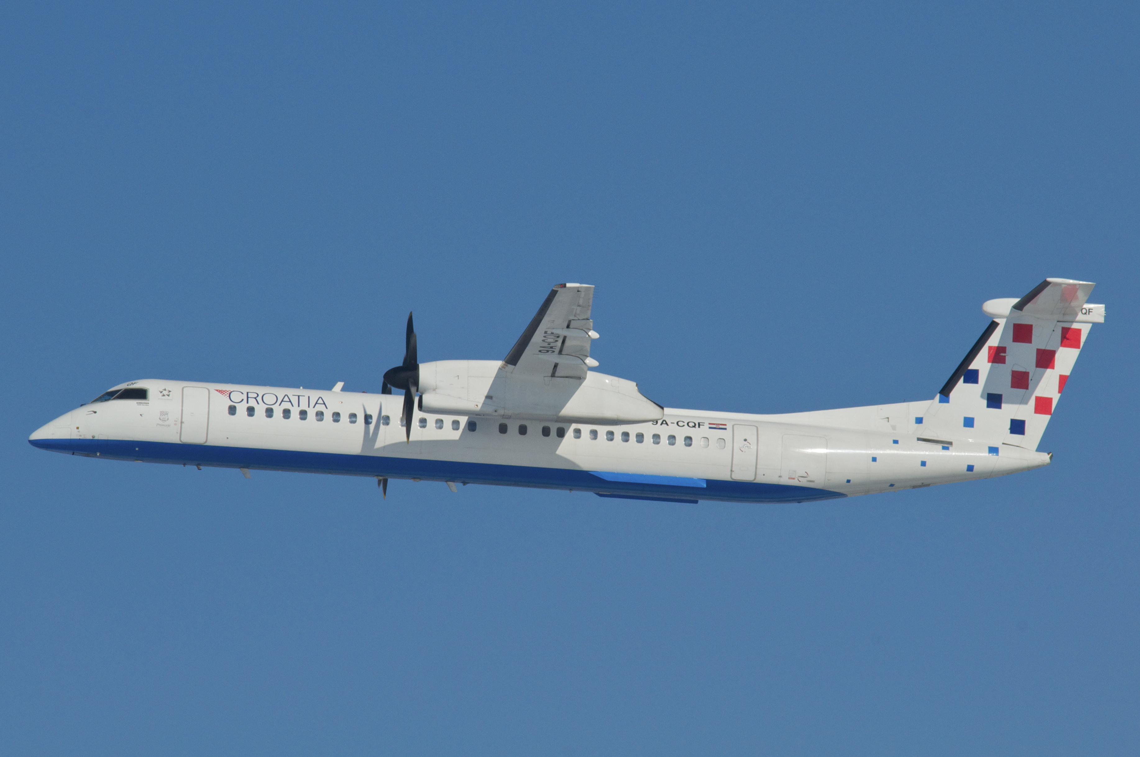 Departing as OU 461 to Zagreb...